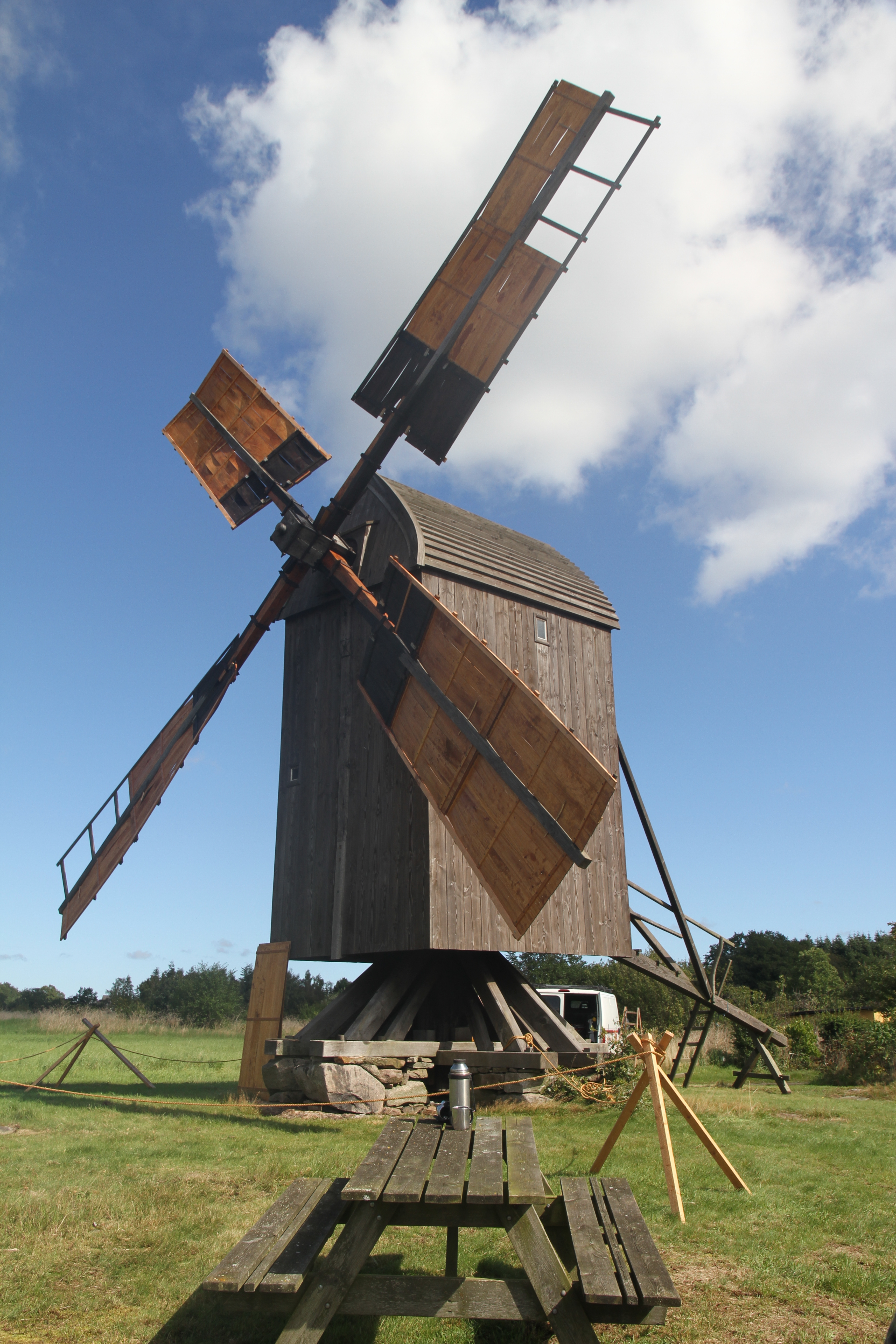 Pictures taken during the tims congress september 2011 Egeby postmill on Bornholm